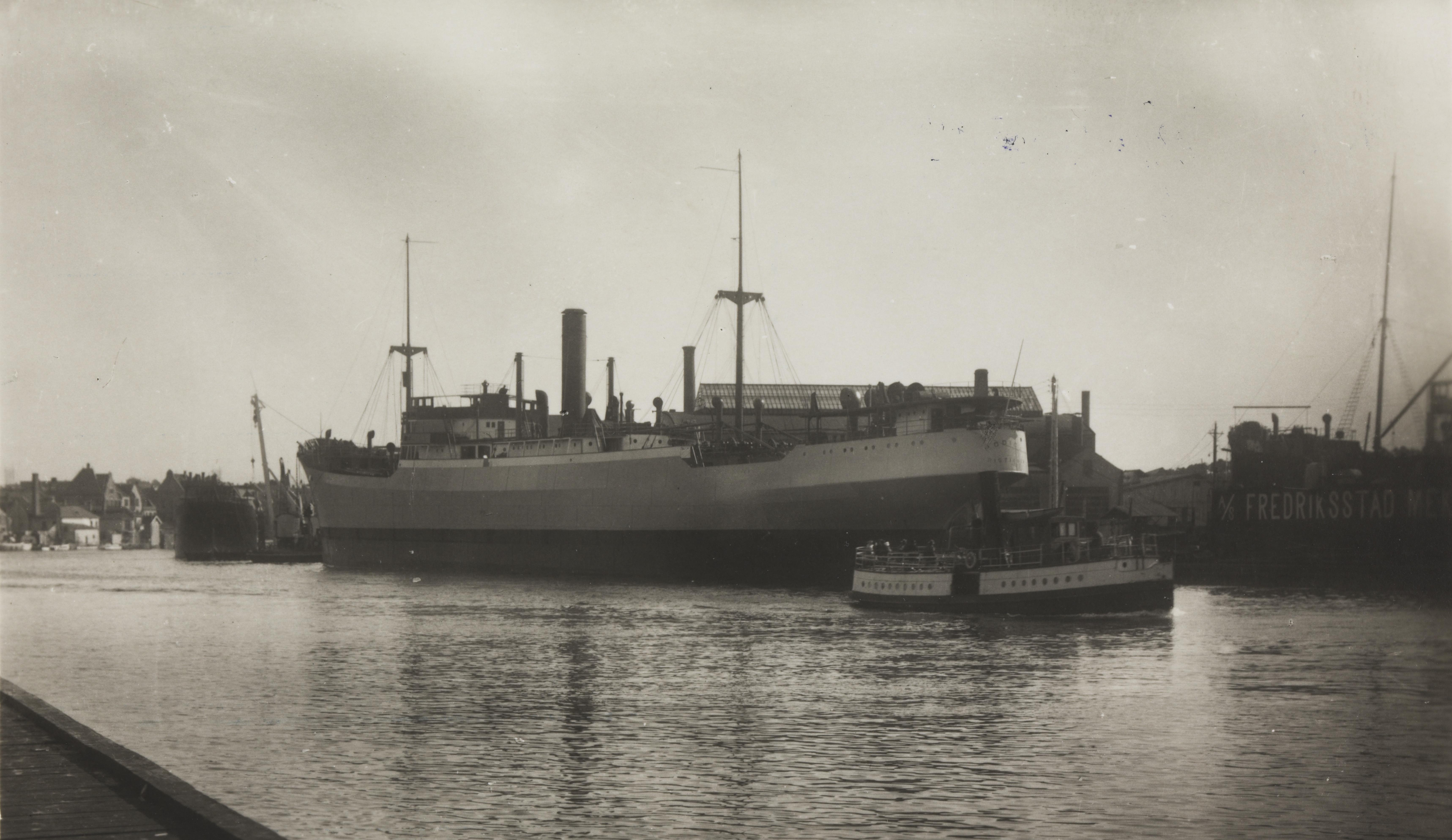 The ship Modica (built 1920) at the Fredrikstad Mekaniske Verksted shipyard in Fredrikstad